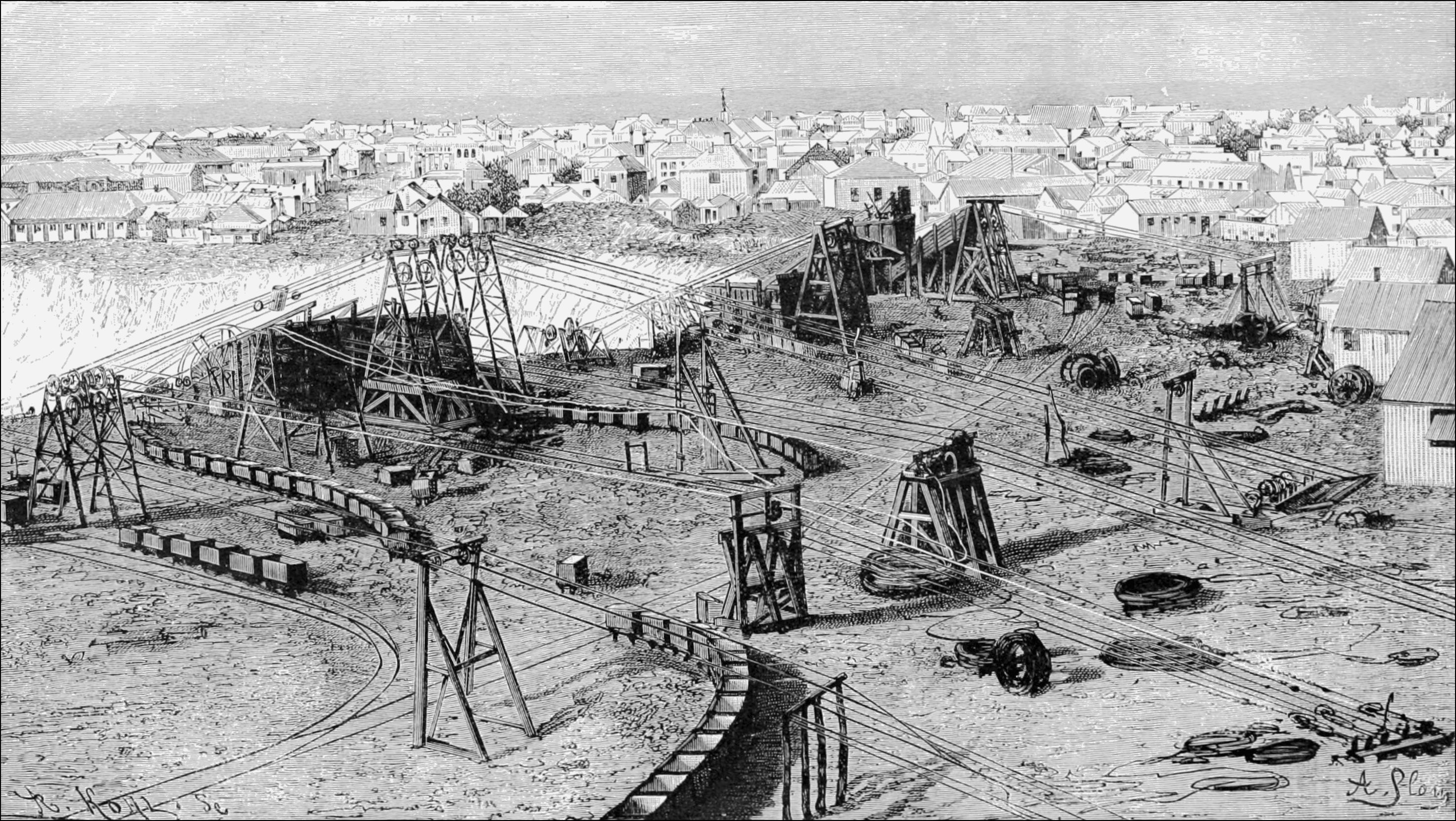 Kimberly and its diamond mine